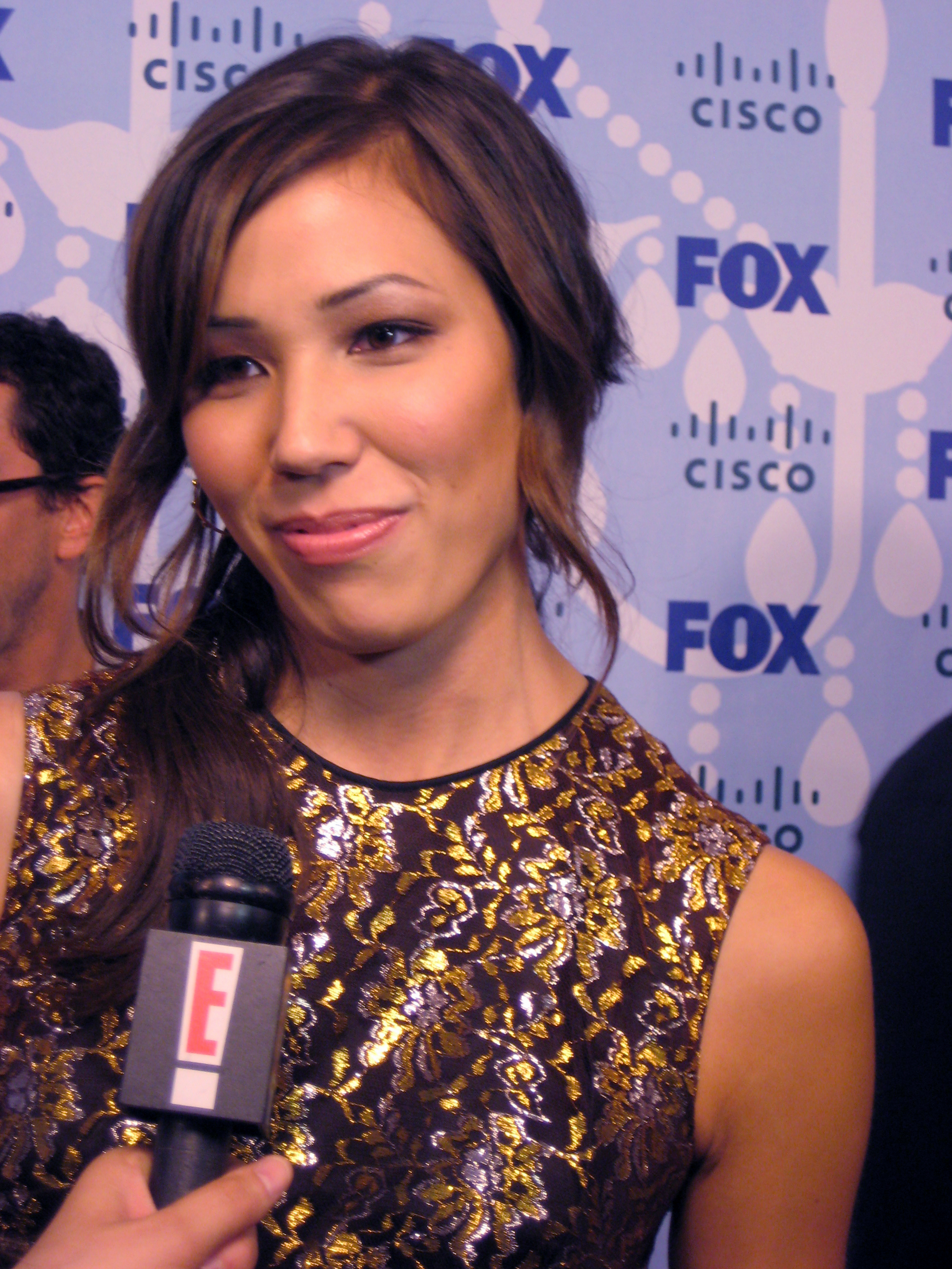 Fox Fall Eco-Casino Party, London Hotel, West Hollywood, California - Sept. 8, 2008